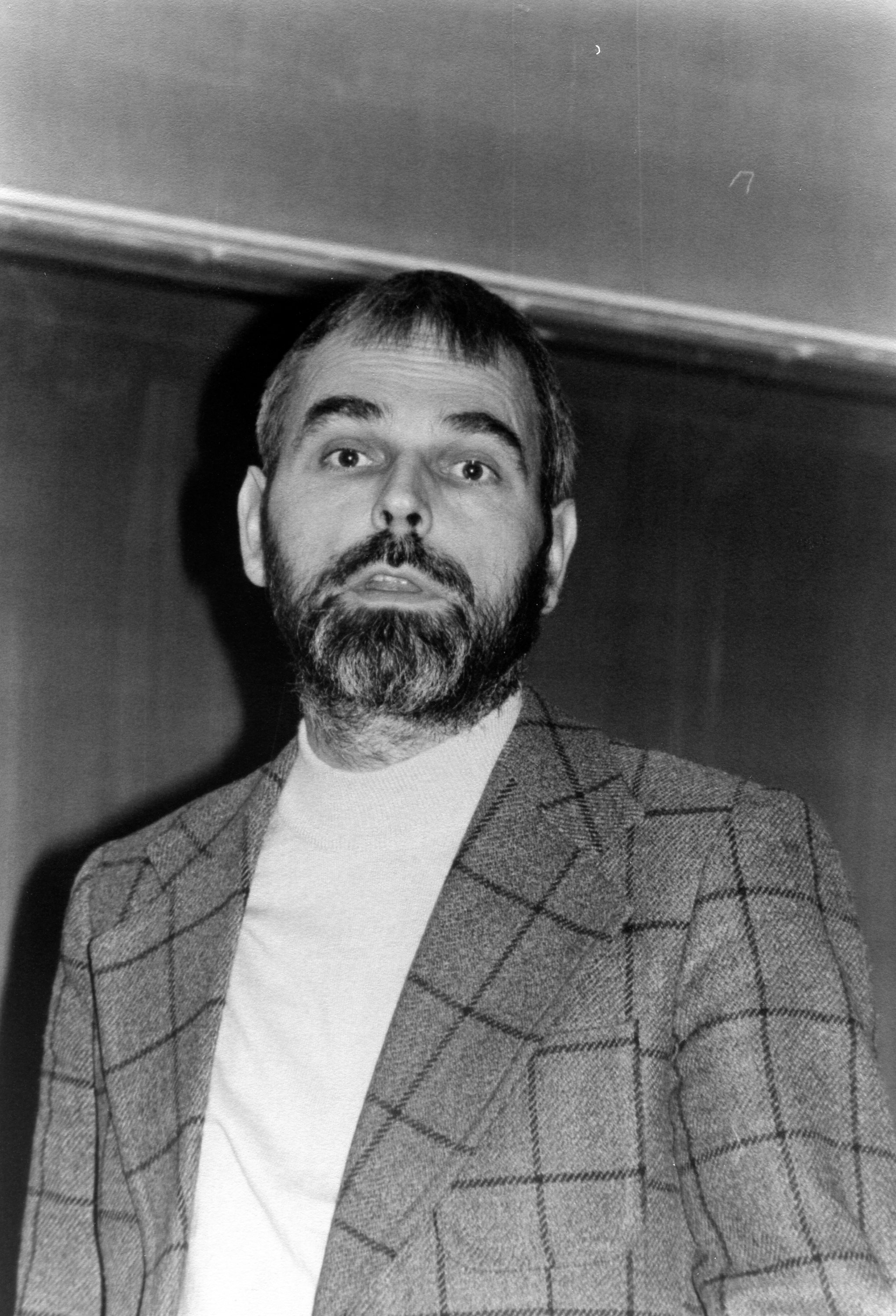 Picture at Mathematisch Forschungsinstitut Oberwolfach produced during Tagung 44/1979 19791026 on Complexity Theory.